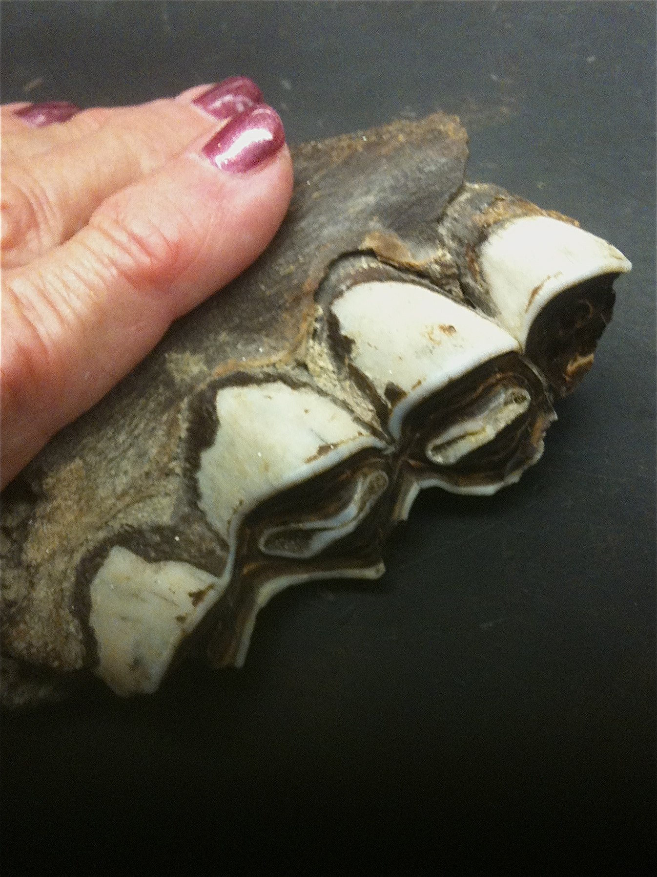 Procamelus elrodi sp. nov. fossil teeth, from Dinosaur National Monument, collected by Earl Douglass. Displayed by the granddaughter of paleontologist Earl Douglass, at National Fossil Day 2011, at the University of Montana Paleontology Center in Missoula.